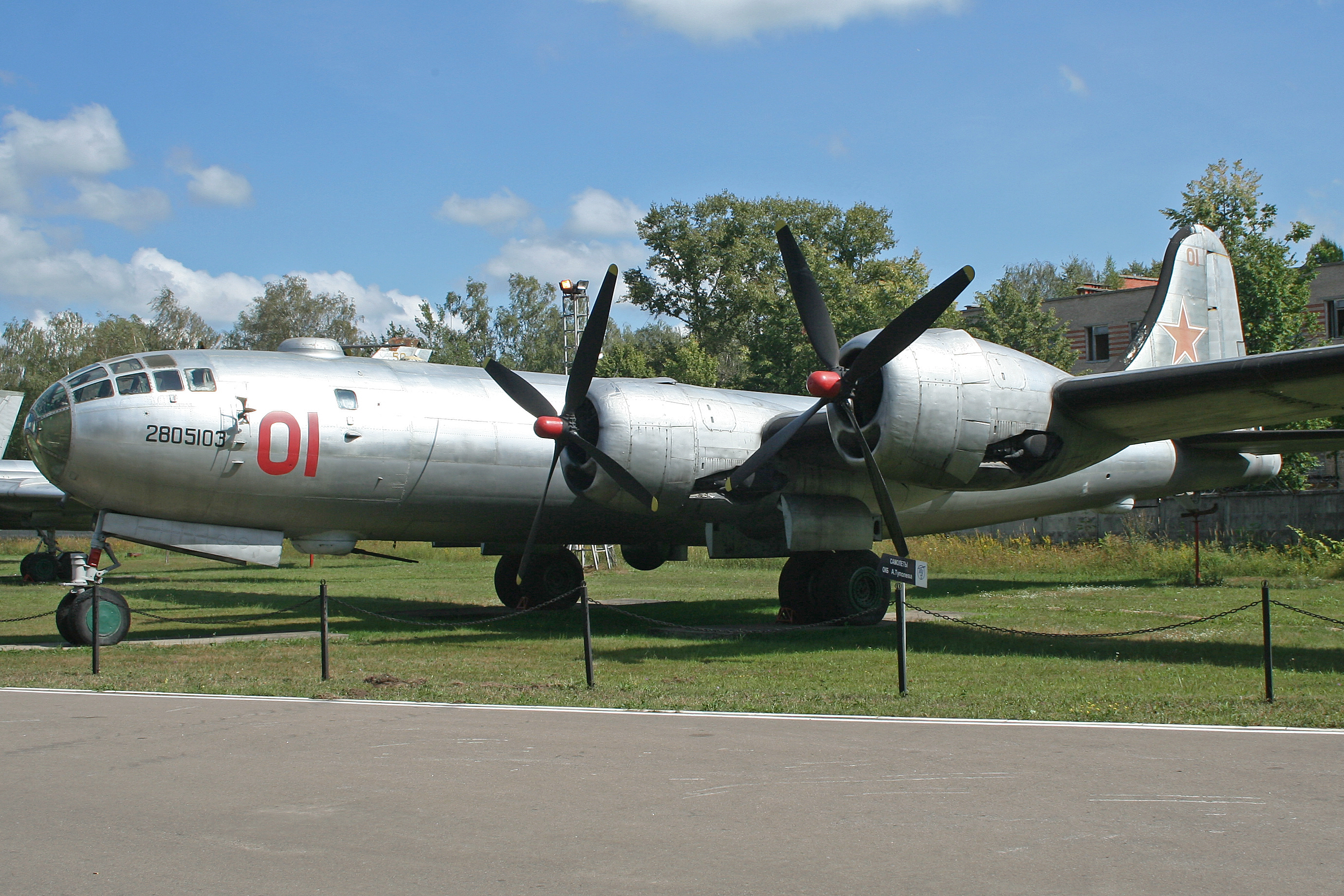 Given the NATO codename 'Bull', the Tu-4 was a direct copy of the Boeing B-29 Superfortress. It first flew in 1947 and was the first Soviet strategic bomber. A total of 847 were built, some serving until the 1960's. There are three known survivors, two in China and this sole example in Russia. c/n 2805103. Russian Air Force Museum. Monino, Russia. 13-8-2012